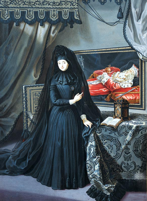 Anna Maria Luisa de' Medici, Electress Palatine, in mourning dress. She points to a painting of her late husband, Johann Wilhelm, Elector Palatine.